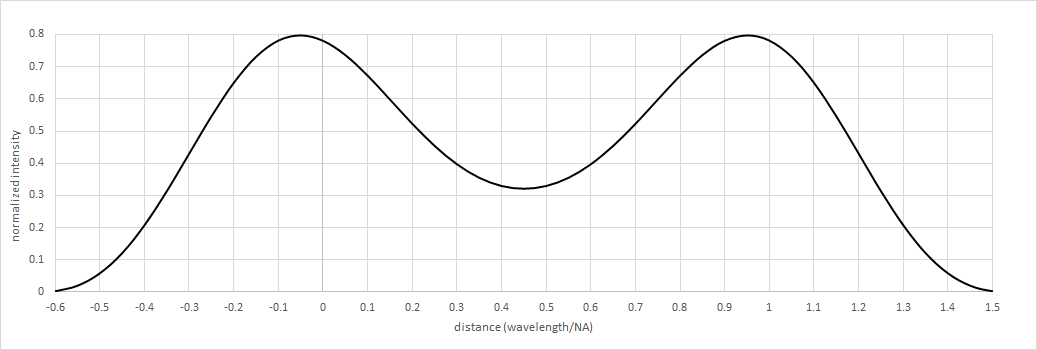 The original objects being imaged are two separated points; when the image is reconstructed by the final objective lens or mirror, the diffraction pattern of the objective aperture (i.e., the Airy disk) is convolved with the two points. When the peaks are separated by around 1 wavelength/NA, they are effectively merging. For this situation, the full-width half-maximum is ~0.6 wavelength/NA. Ref.: B. E. A. Saleh and M. C. Teich, Fundamentals of Photonics, (c) 1991, John Wiley & Sons, Ch. 4 and Appendix A.